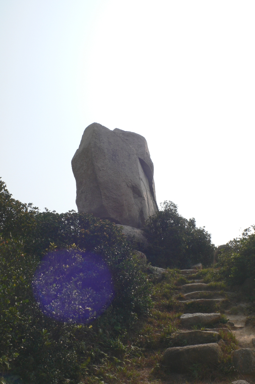 The Giant Stone in Fan Lau, located on the western part of Lantau Island, is one of the oldest fort in Hong Kong. It was said that the stone was special looks like a human face, thus Fan Lau Village was once known as the Shek Shun CHeun, which means the "Stone Pillar Village"